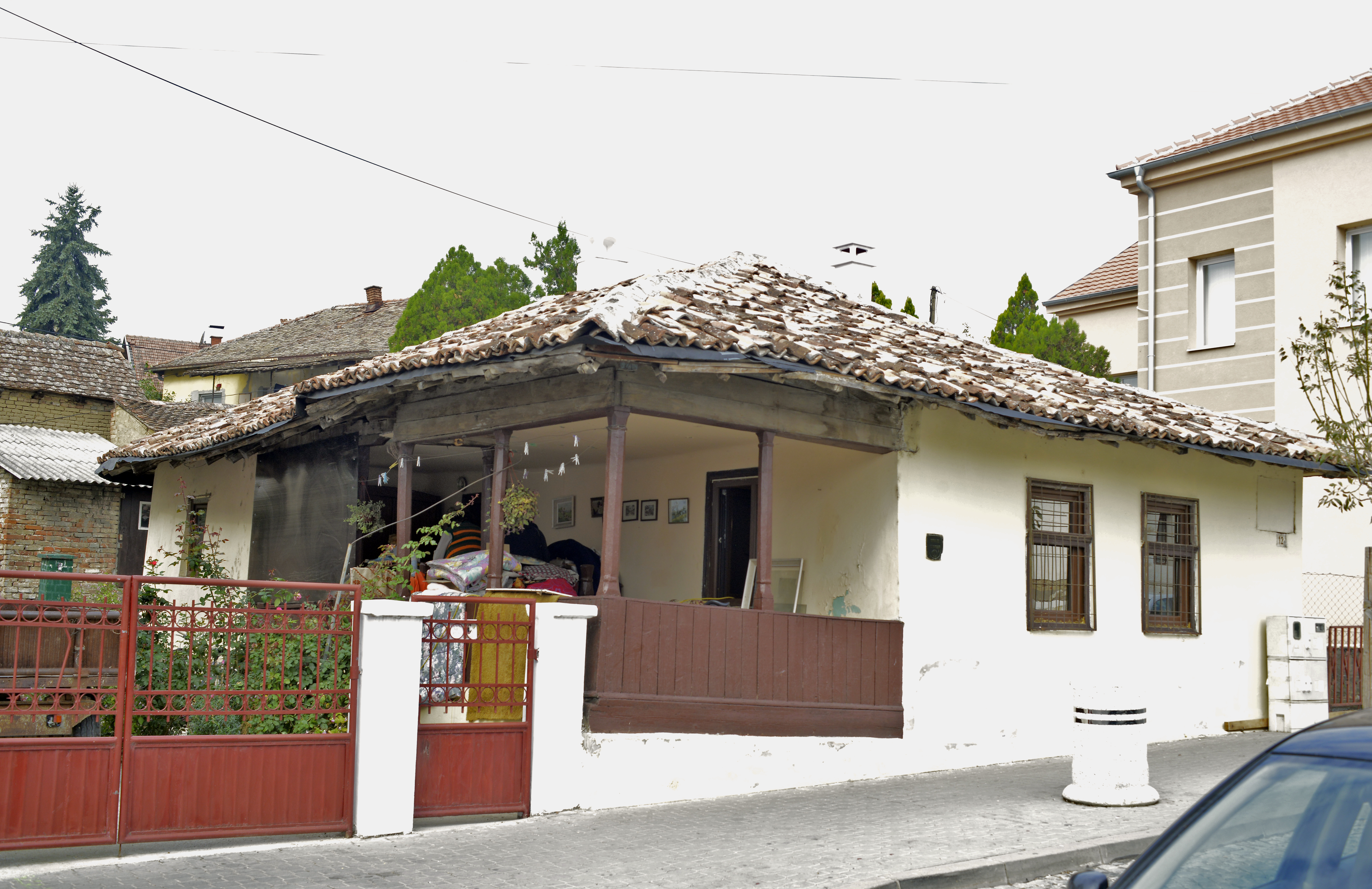 Nišlić's house in Grocka's Čaršija (Grocka, a town near Belgrade)